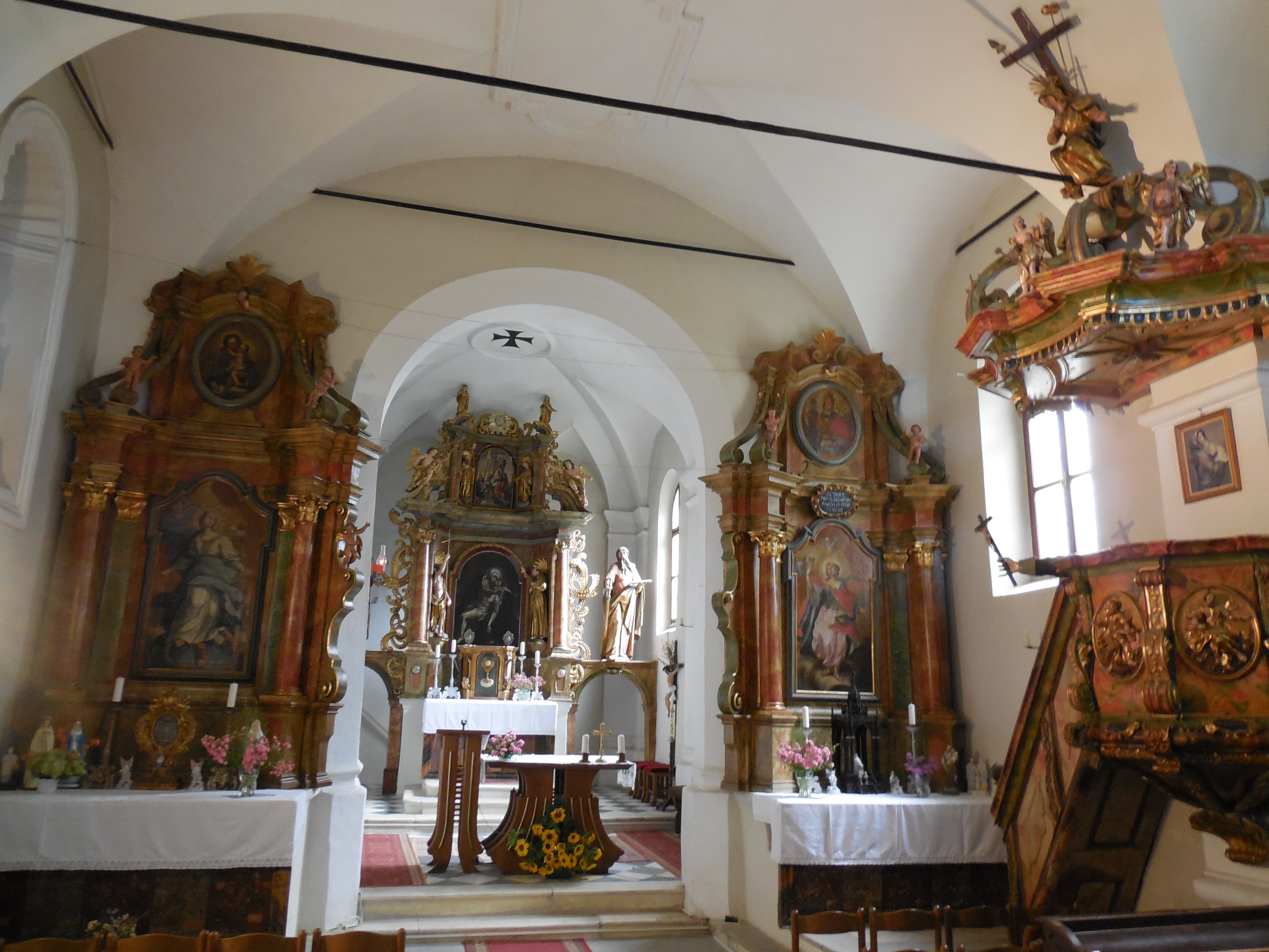 Our Lady of Sorrows Church, Jeruzalem, Slovenia